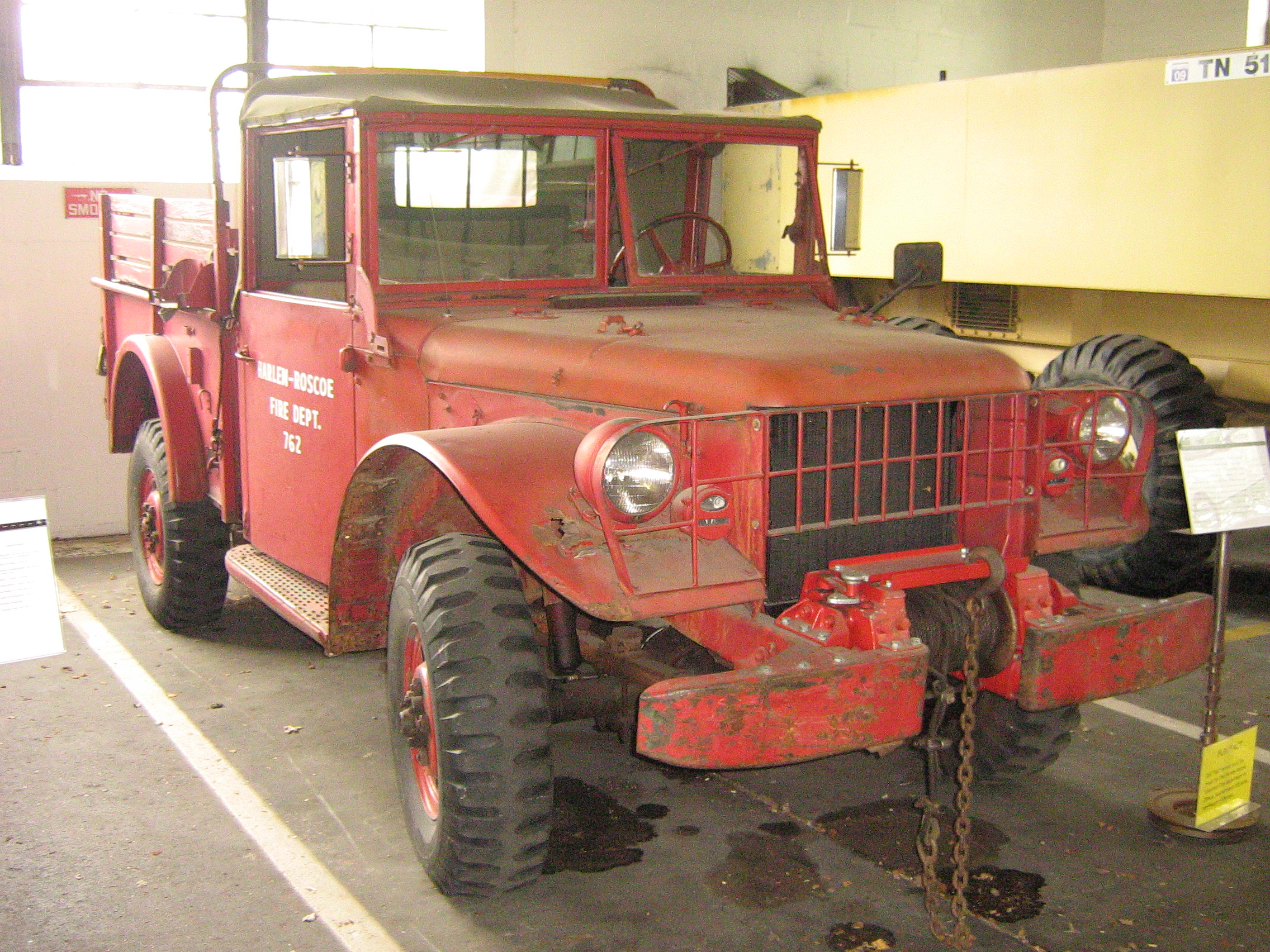 1960 Dodge M-37 3/4 Ton